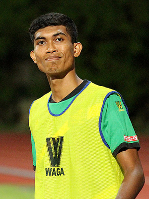 Farouq Farkhan in action for Woodlands Wellington against Albirex Niigata (S) in a pre-season friendly on 18 January 2013.